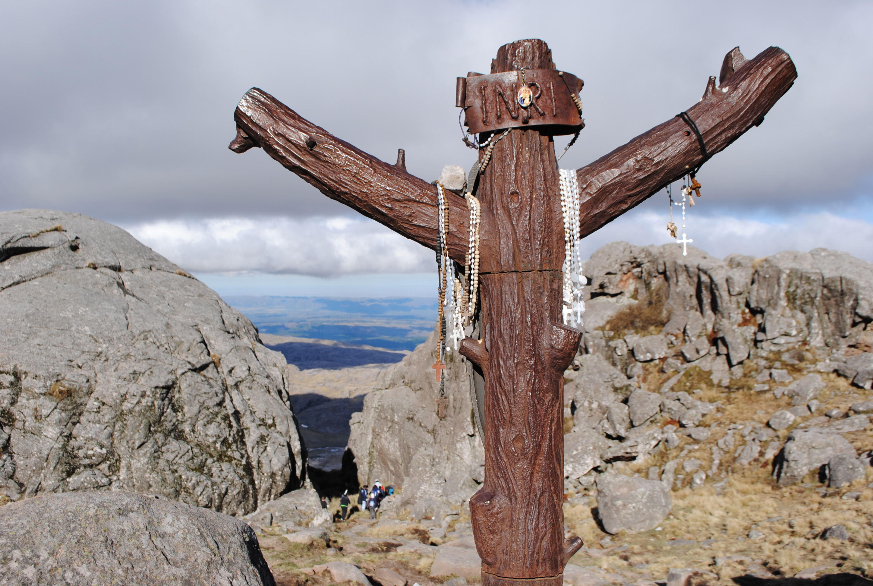 Sculpture near the top of Champaquí